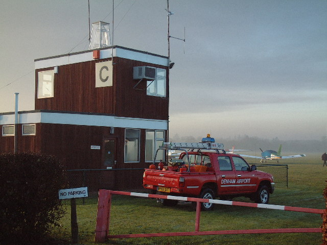 Denham Aerodrome Control Tower. The fire safety vehicle has the name "Denham Airport" painted on its side. However most maps seem to prefer the aerodrome moniker.